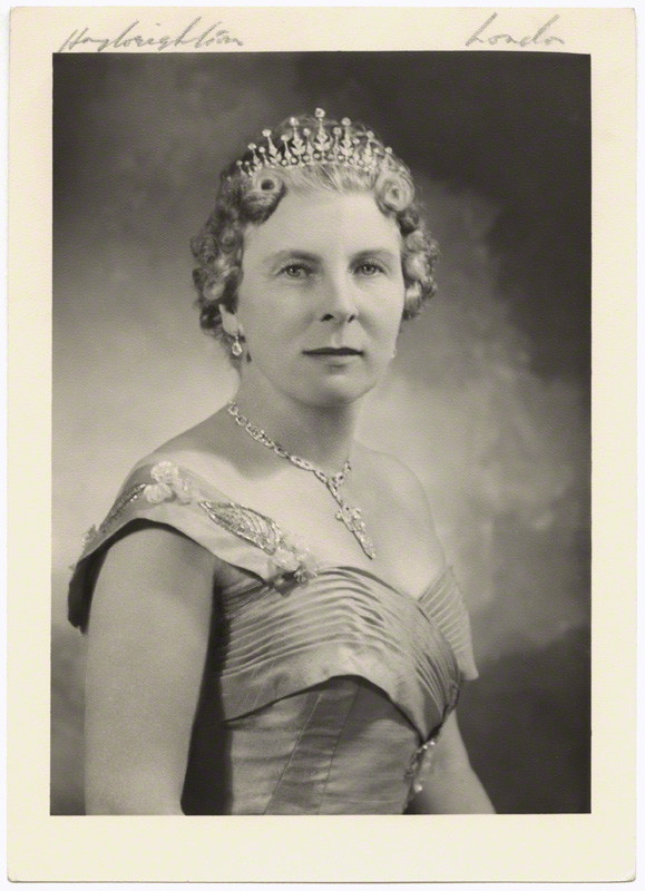 by Hay Wrightson, chlorobromide print